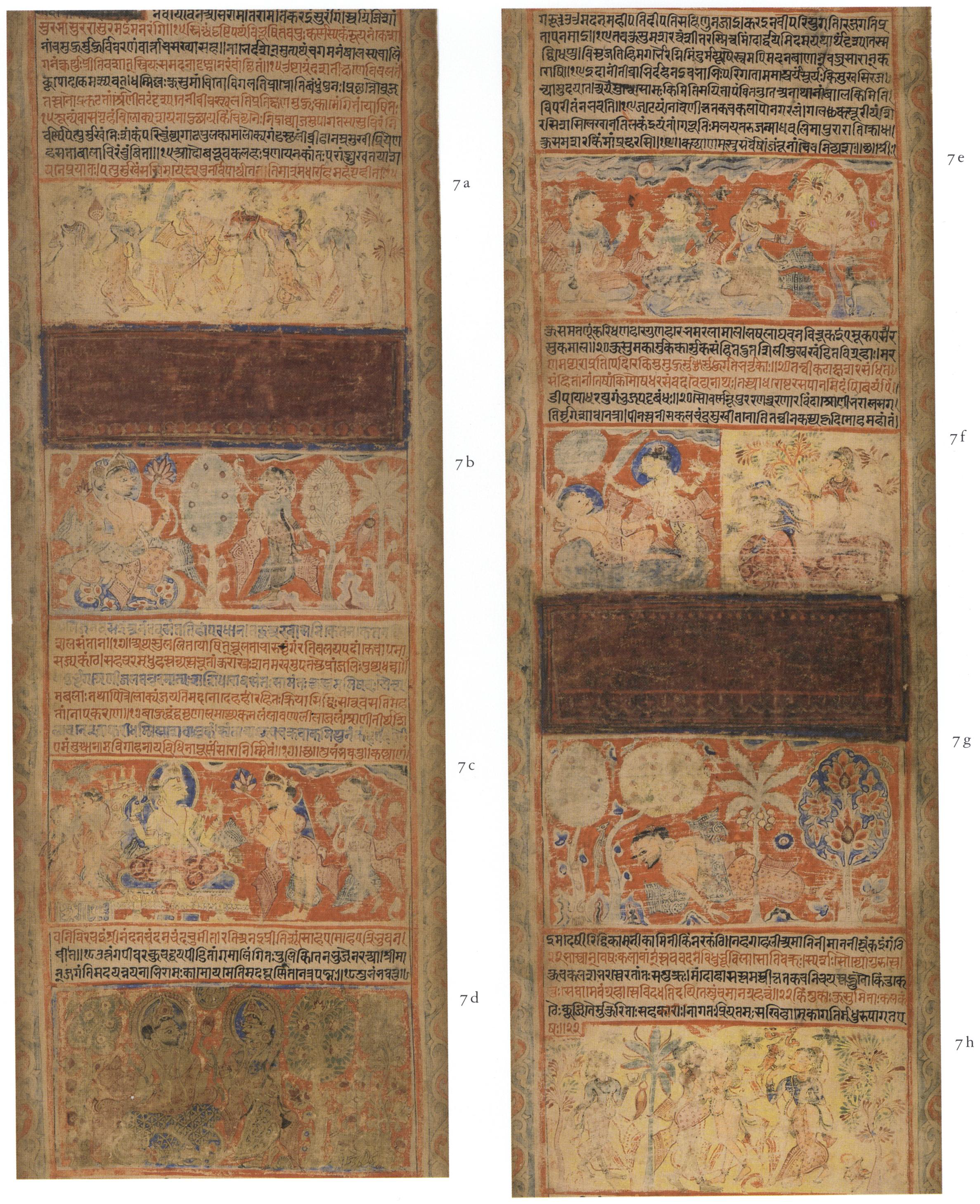 7a to 7h, Section of the Vasanta Vilasa, 1451 CE